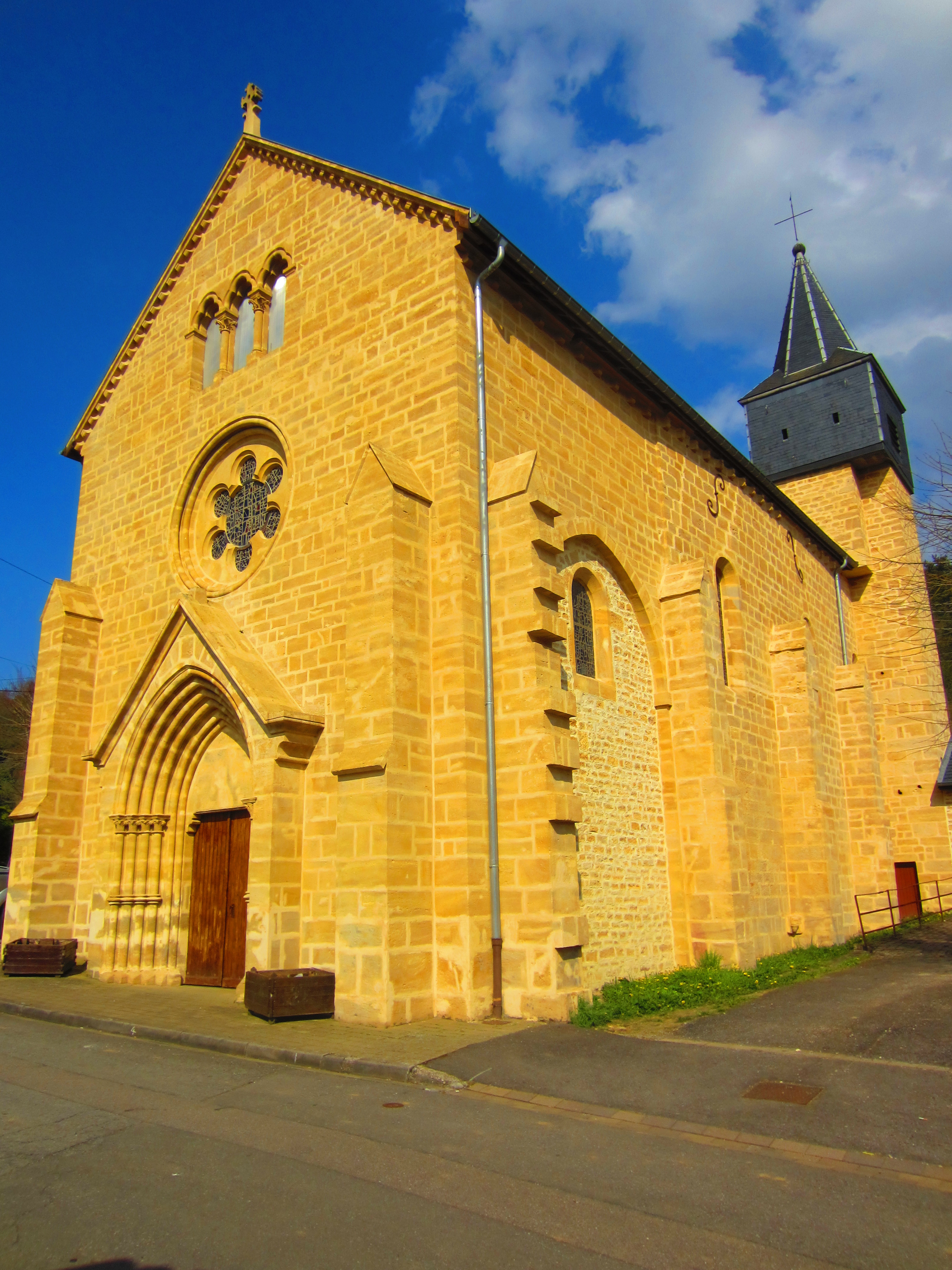 Viviers-sur-Chiers church